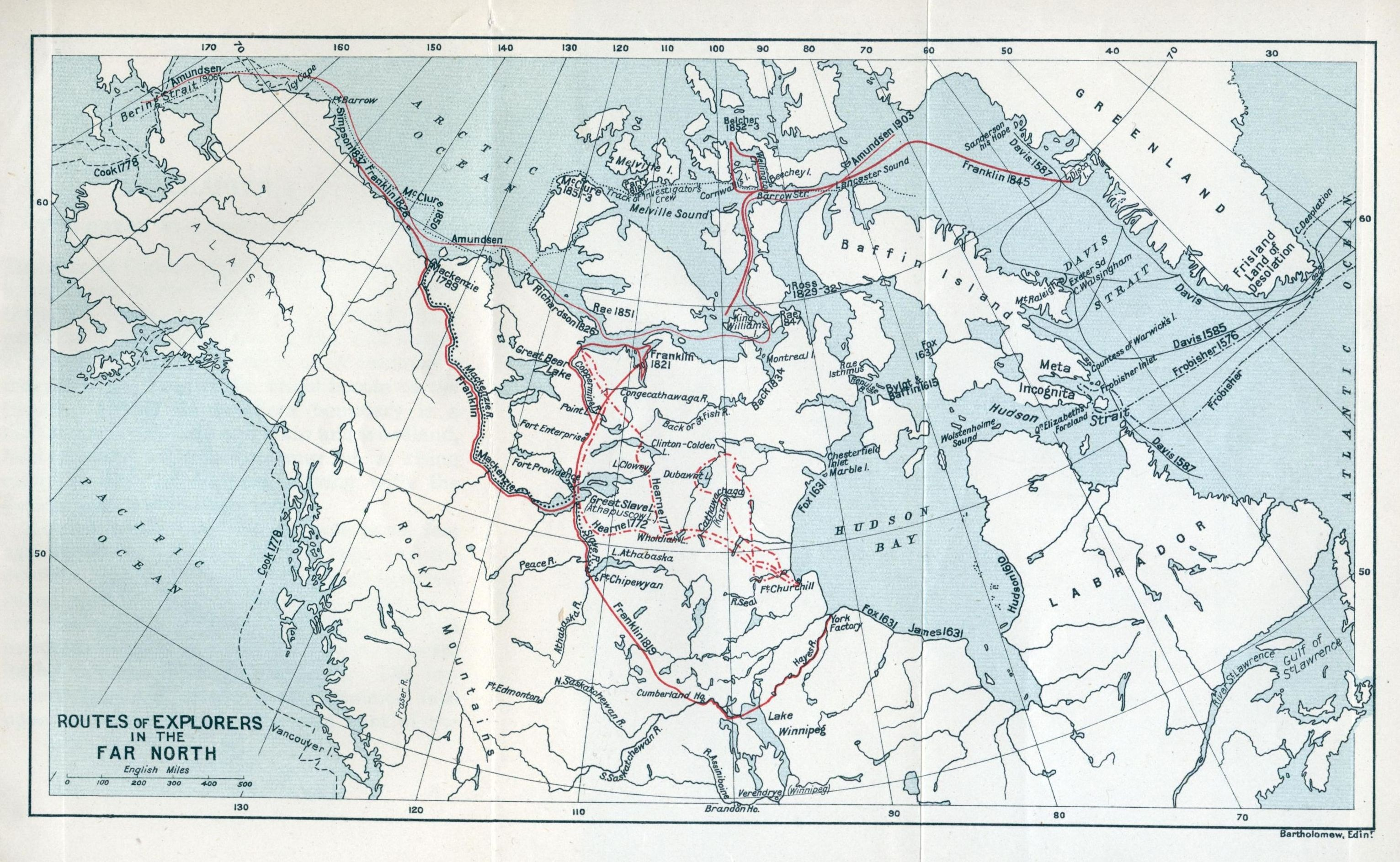 Stephen Leacock (1914). Adventurers of the North: A Chronicle of the Frozen Seas. Toronto: Glasgow, Brooke & Company, 149 pp.